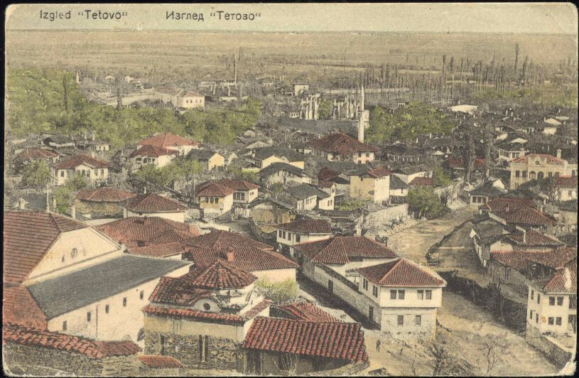 View on Tetovo, Macedonia in 1913